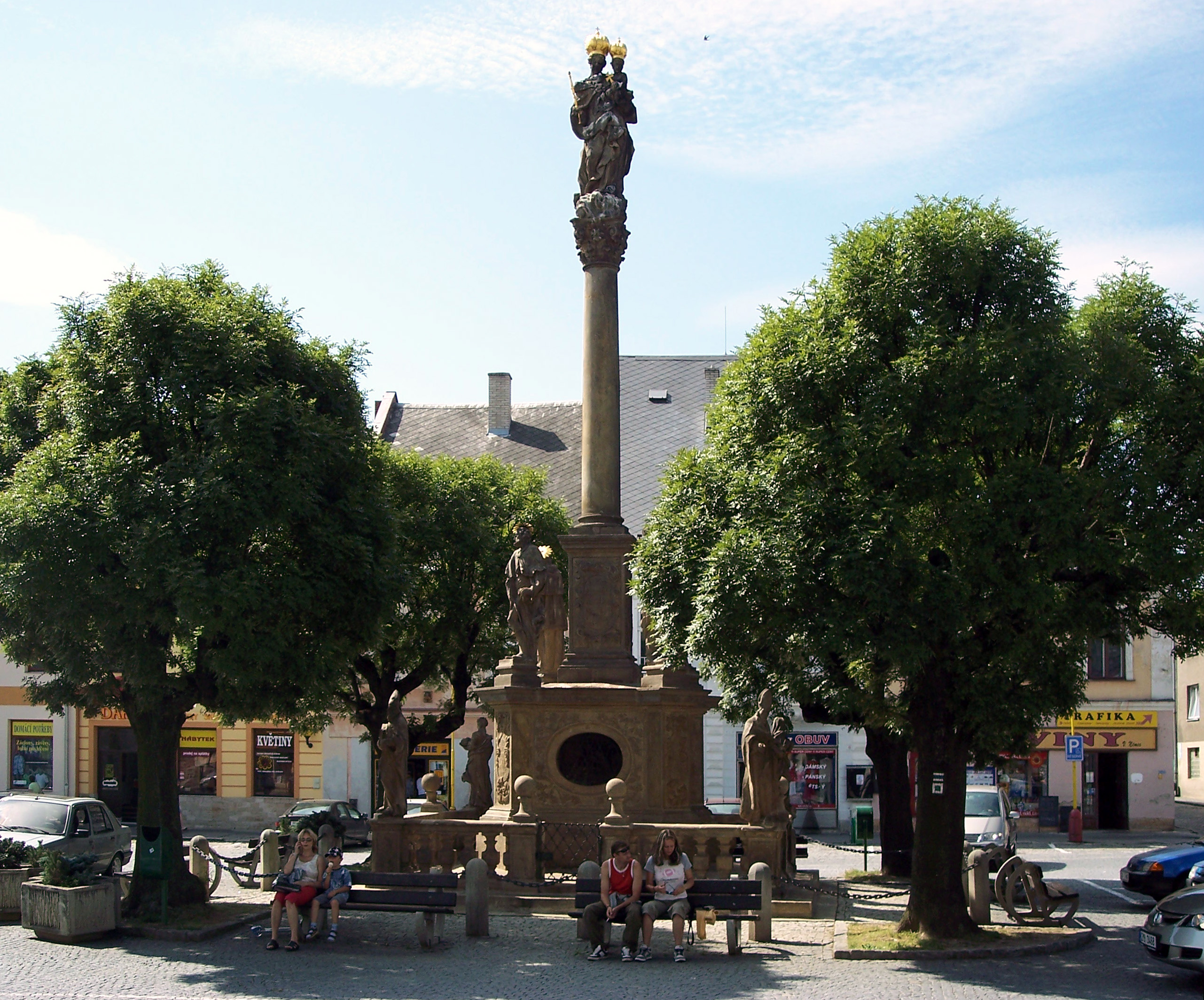 Marian column in Mohelnice (The Czech Republic)